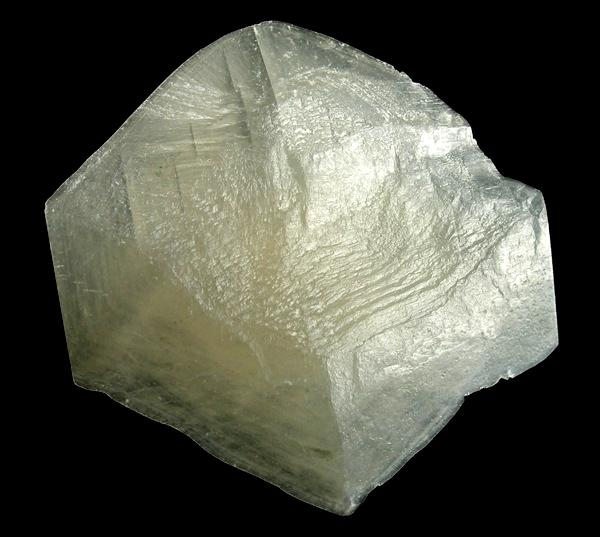 Gypsum (Var.: Gypsum) Locality: Great Salt Lake, Box Elder County, Utah, USA (Locality at ) Size: 5.4 x 5.2 x 1.0 cm. A very rare, old-time Utah specimen of a translucent, complete-all-around, floater selenite disk from the famous Great Salt Lake area. This fine piece has stepped growth-faces and interior, parallel-growth zoning. Very nearly pristine. Ex. Mullane Collection and accompanied by an older, faded Burminco label.